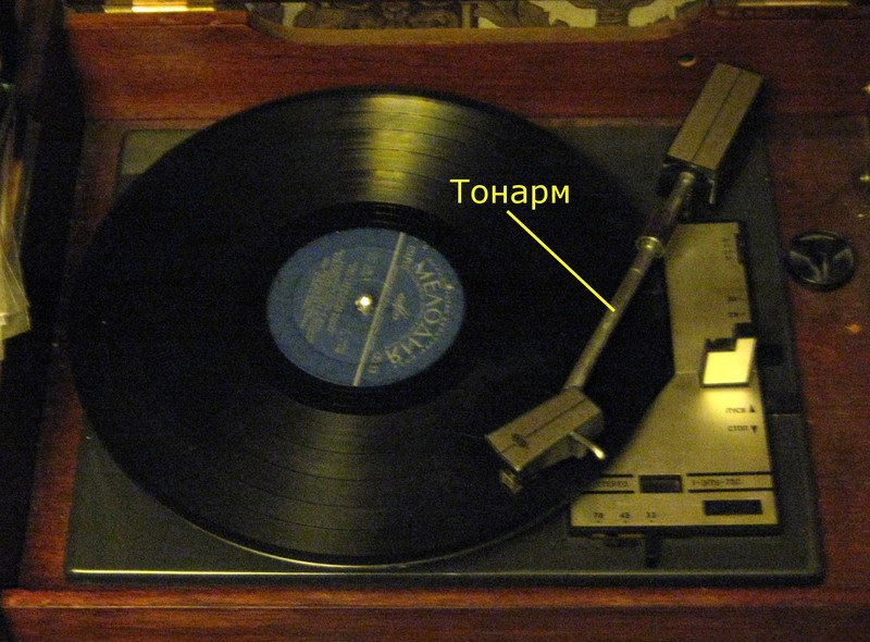 Tone arm of "Victoria-001-Stereo"